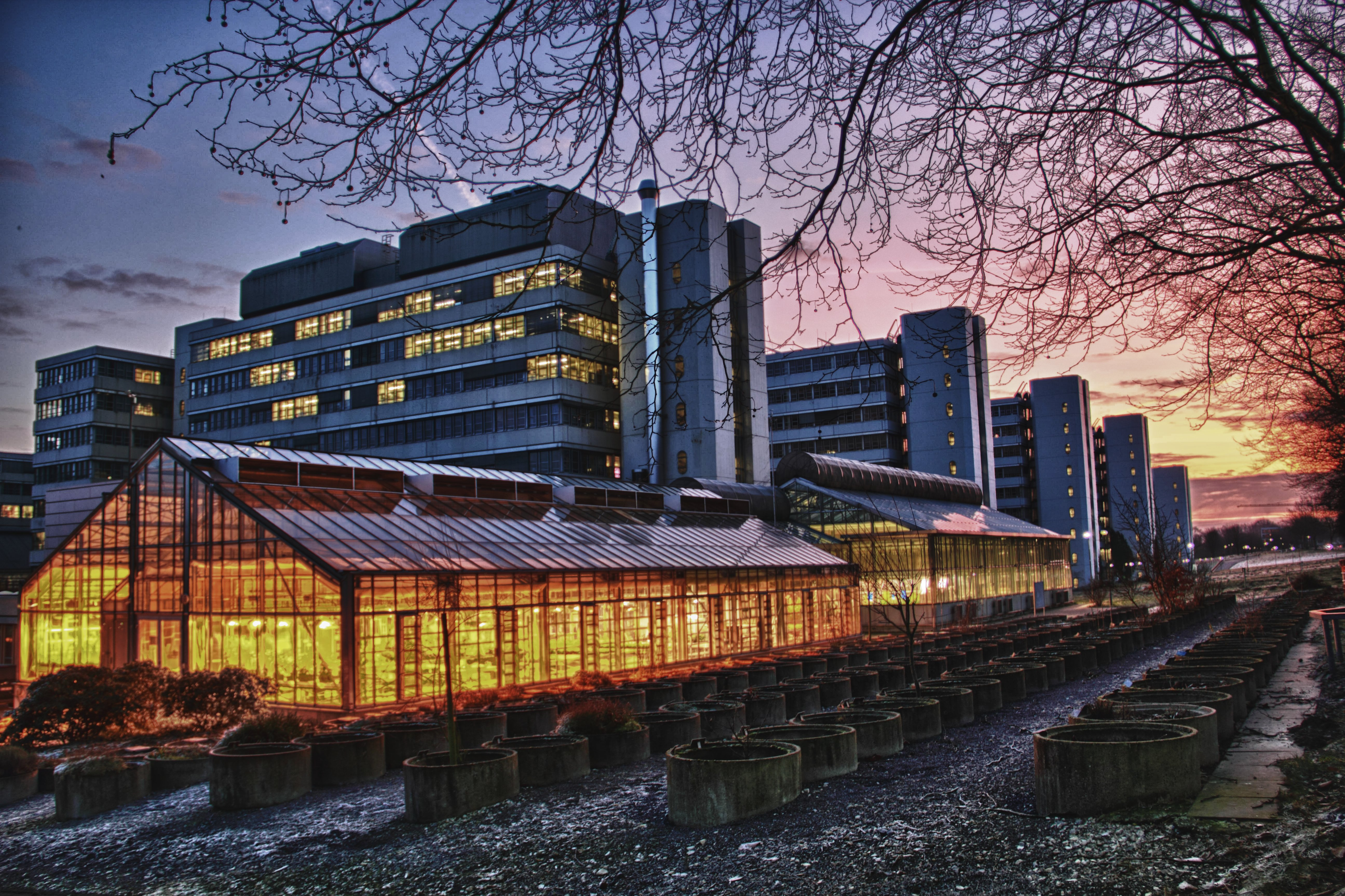 HDR Picture of the University of Bielefeld with greenhouses.